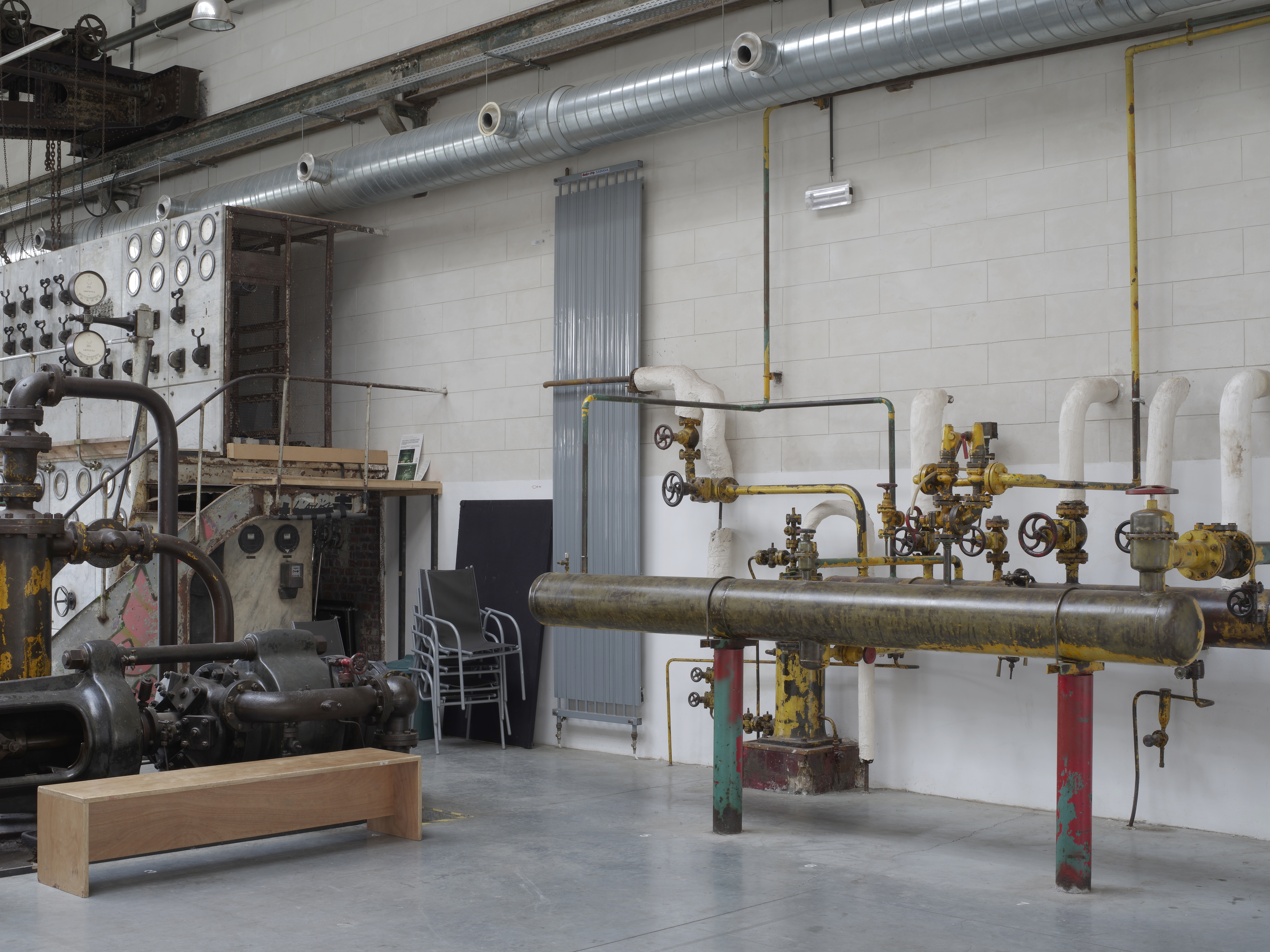 BRASS, the machine room of the former brewery Wielemans-Ceuppens at avenue Van Volxem 364 in 1190 Brussels (Forest).